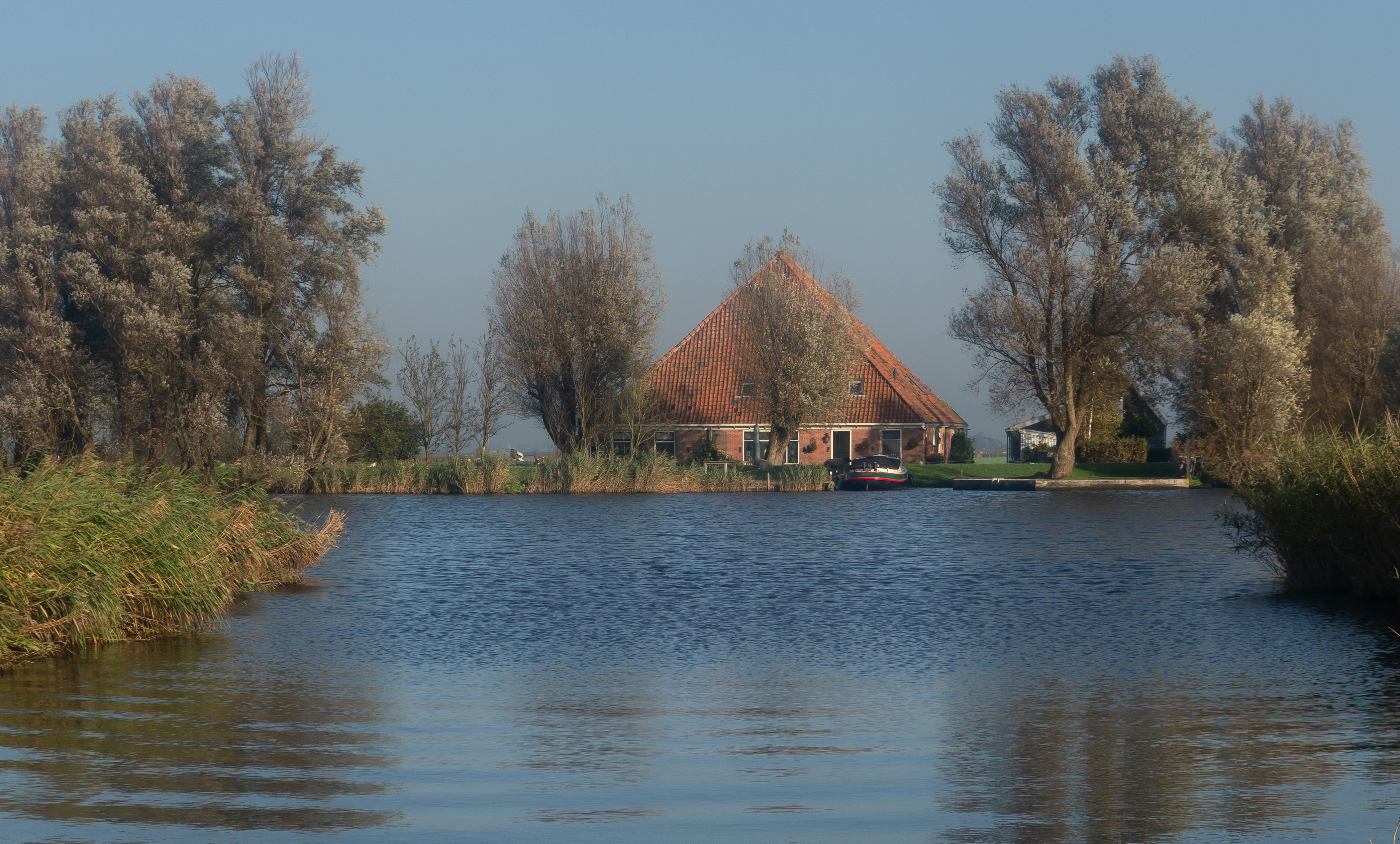 near Krommeniedijk, farm in the polder